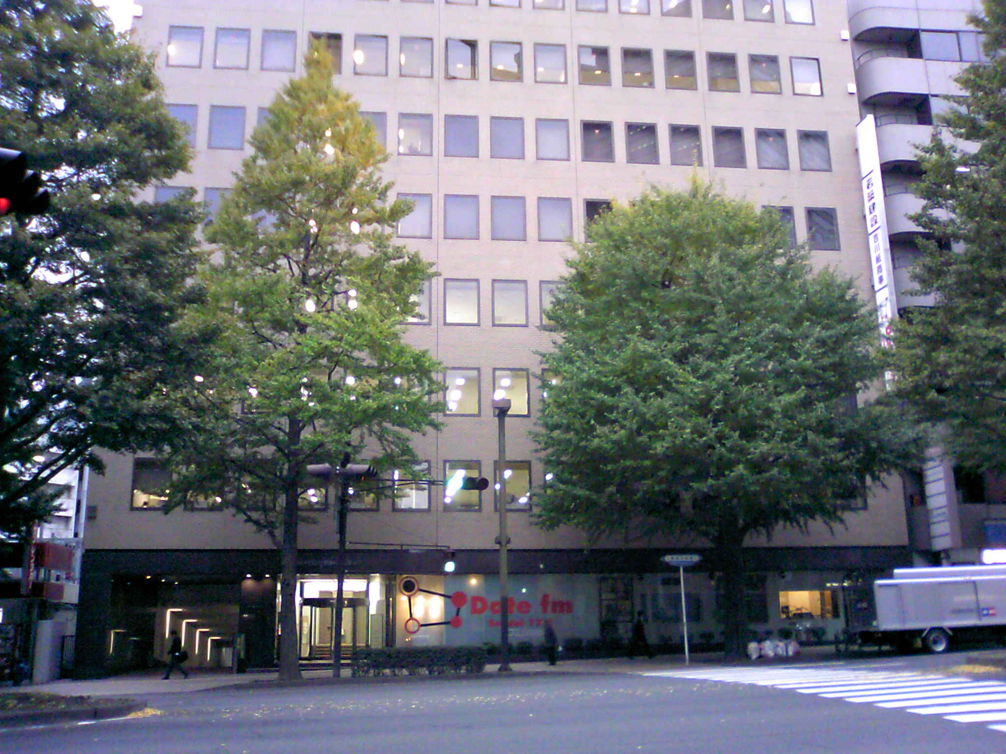 Photograph of Kamei Sendai Green City Building in Aoba-ku, Sendai, Miyagi, Japan.